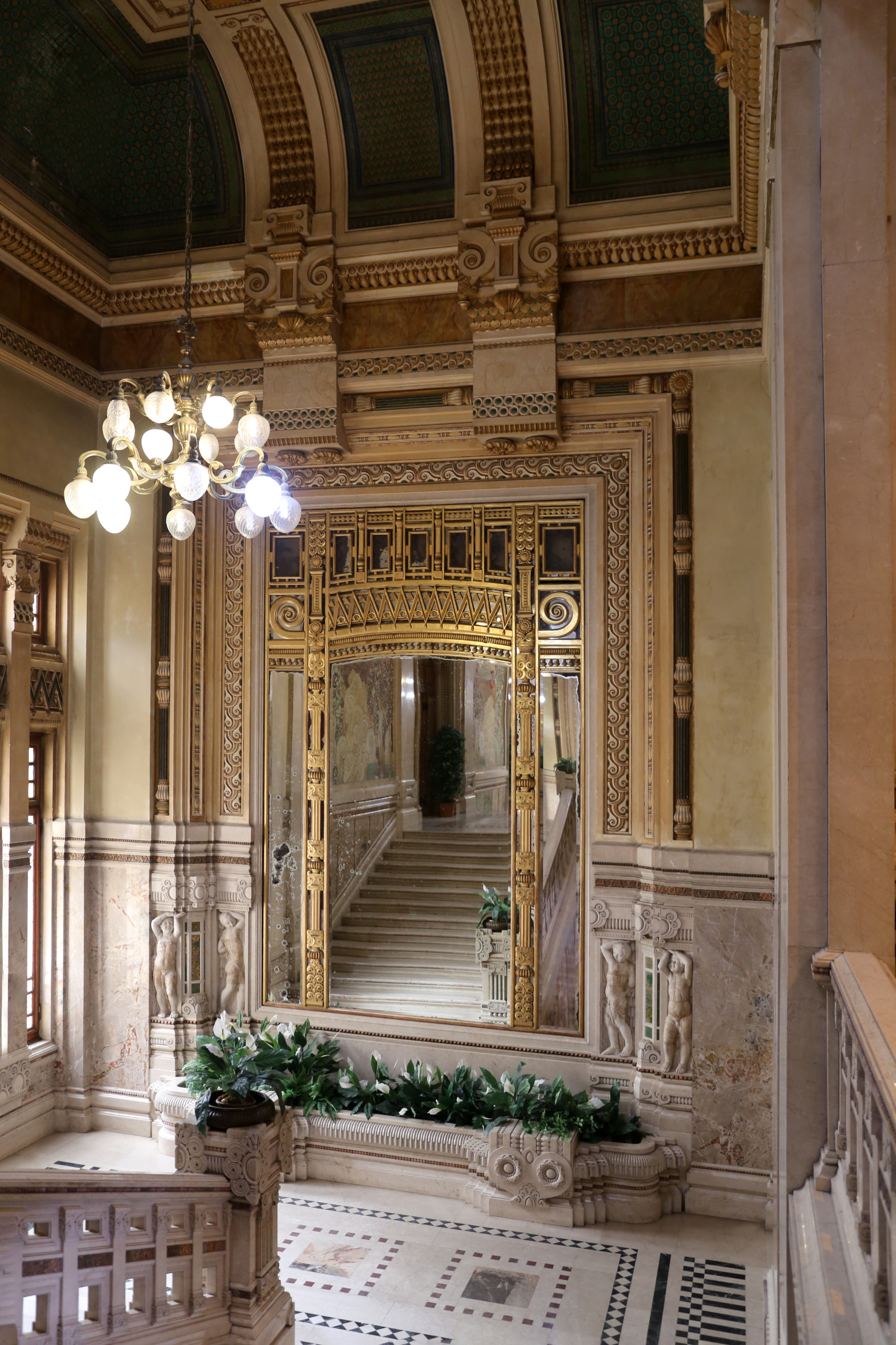 Terme Berzieri - Interior